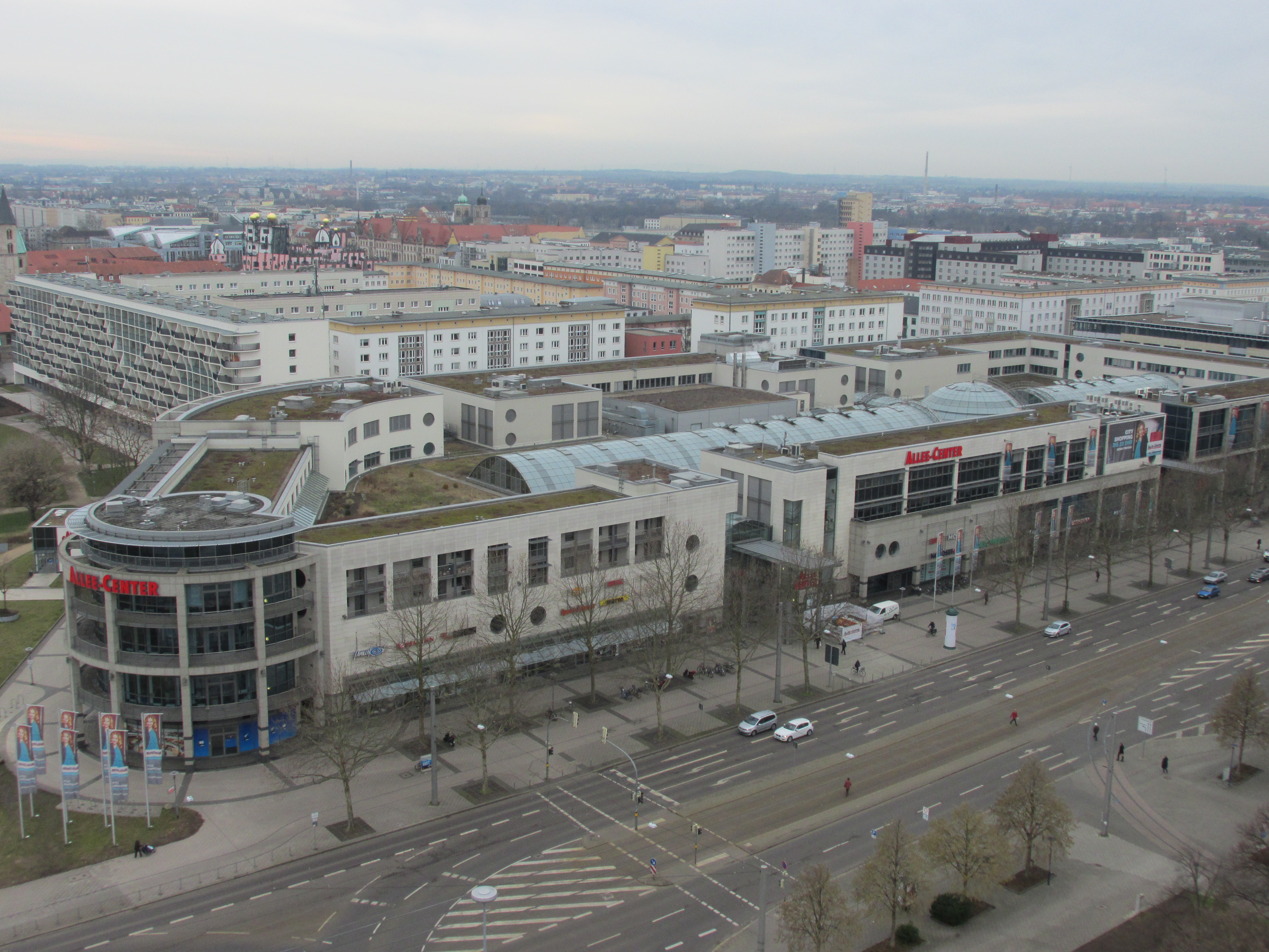 Allee Center, seen from tower of St. Johannis church, Magdeburg, Germany check usage Address Ernst-Reuter-Allee 11 39104 Magdeburg Germany Date18 February 2014SourceOwn work. (→ weitere 1,417 Bilder von mir in der Galerie)AuthorStefan FlöperPermission (Reusing this file) cc-by-sa-3.0, gfdl 1.2+ Attribution (required by the license)Stefan Flöper / Wikimedia Commons / CC-BY-SA-3.0 & GDFL 1.2+ Licensing[edit]